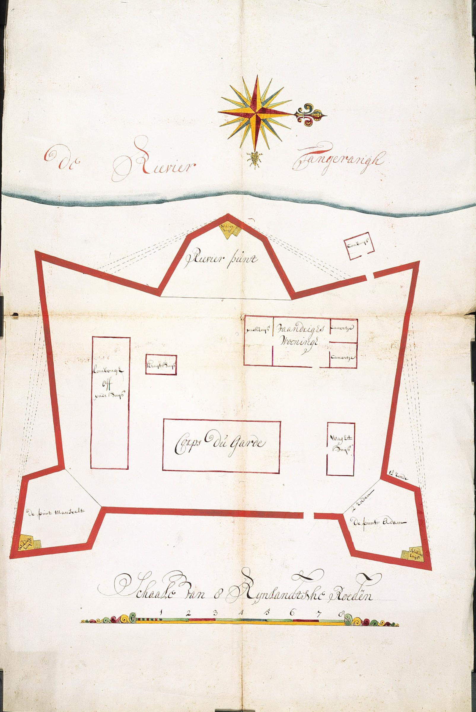 According to the Leupe catalogue (NA), the original title reads: Als voren, van de vesting tot Tangerangh, referring to the title of VEL1208: Platte grond van het fortje de Zevenhoek enz.. Notes on reverse: 1709 N 4 [brought over in 1709] / 660 [thought to be the folio number in the OBP volume] / Caart vande vesting tot Tangrang / 602 y / 1700 [in pencil].